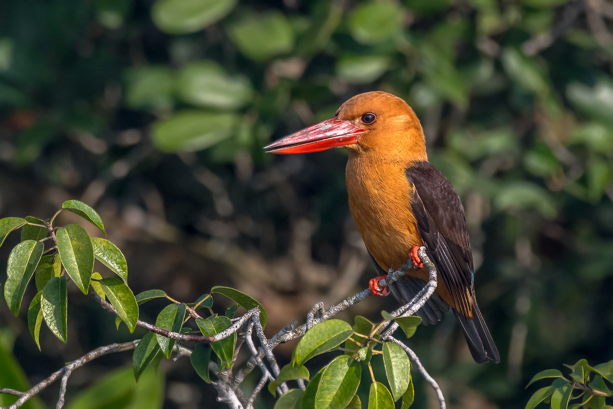 Brown-winged kingfisher, Sundarbans, WB, India; Photographer: Prasanna Kumar Mamidala